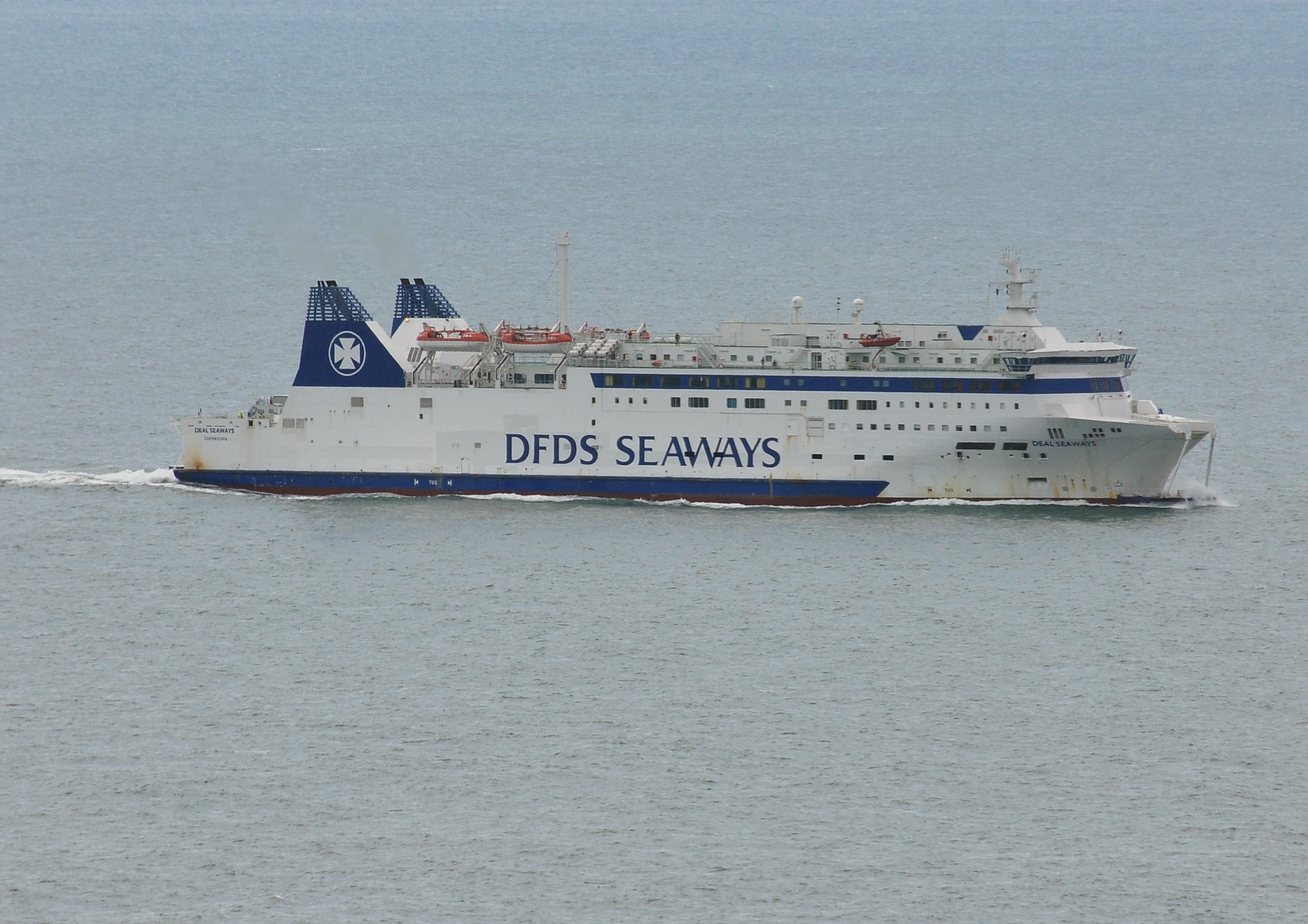 The ferry Deal Seaways off the White Cliffs of Dover.